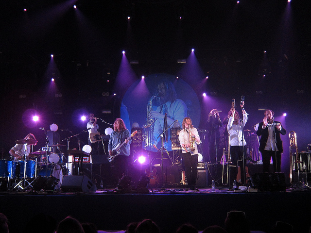 Rubik at Flow Festival 2011. Photo by Berto Garcia.